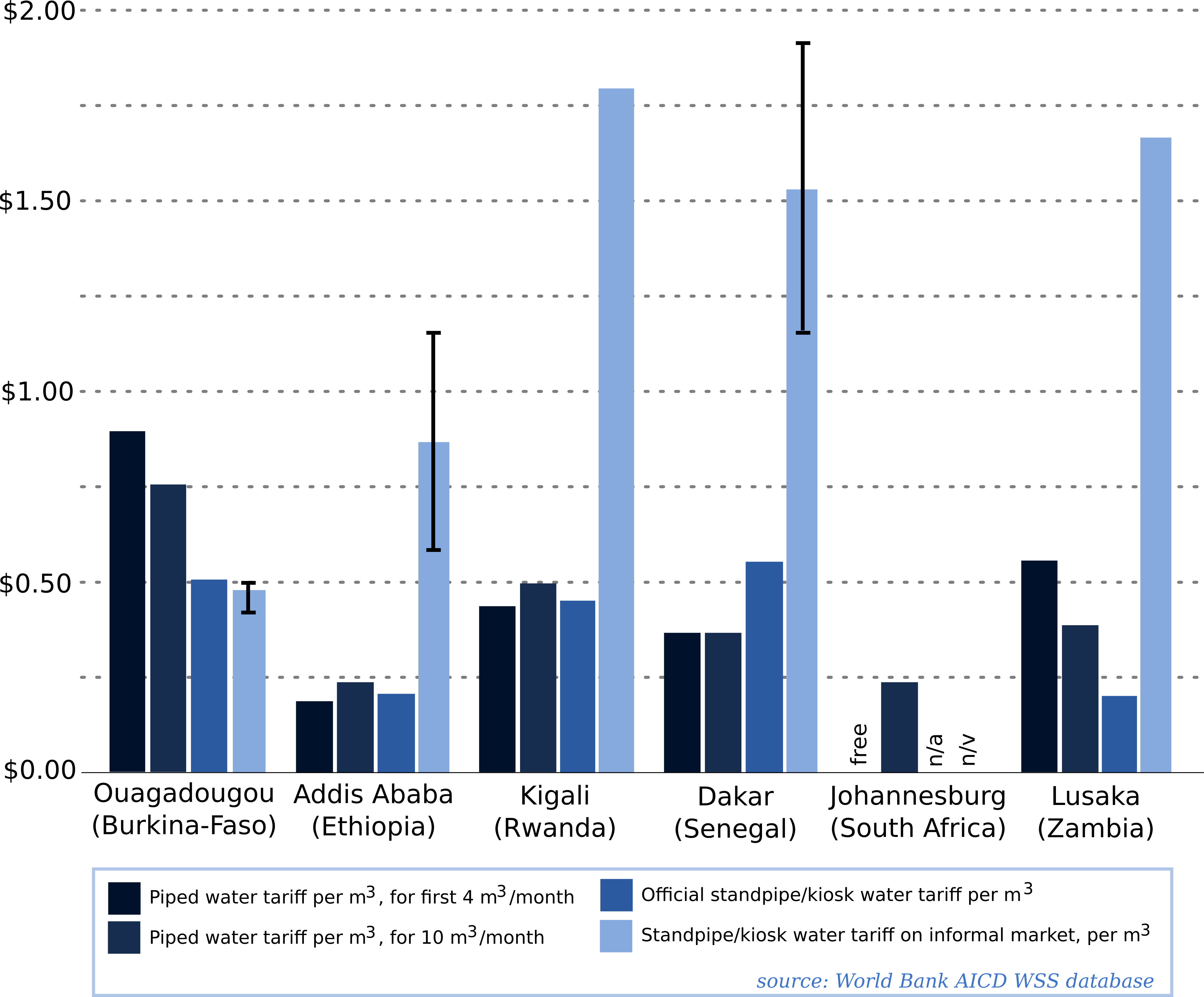 Graph showing the formal and informal water tariffs in 6 Sub-Saharan African Countries. Data taken from